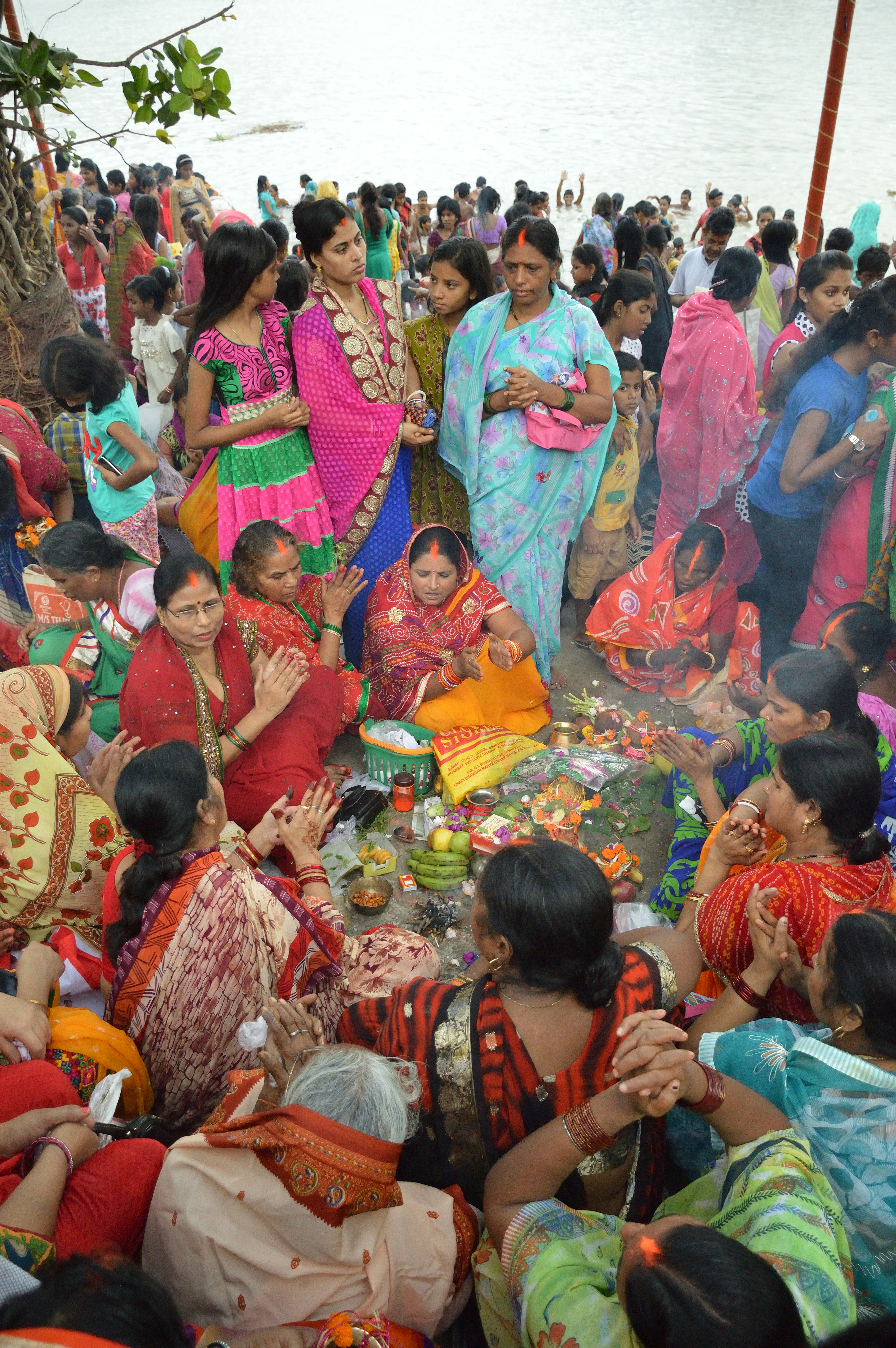 This photograph has been taken during the Jivitputrika (Sanskrit: जीवित्पुत्रिका) (Hindi: जिउतिया , Jiutiya) (Nepali: जितिया , Jitiya) festival that observed at the riverbank of the Ganges, Ramkrishnapur Ghat, Howrah.